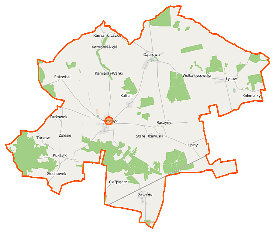 Map of Gmina Przesmyki, Poland This map of Przesmyki (gmina) was created from OpenStreetMap project data, collected by the community. This map may be incomplete, and may contain errors. Don't rely solely on it for navigation. Border coordinates52.336222.4863←↕→22.735552.2061